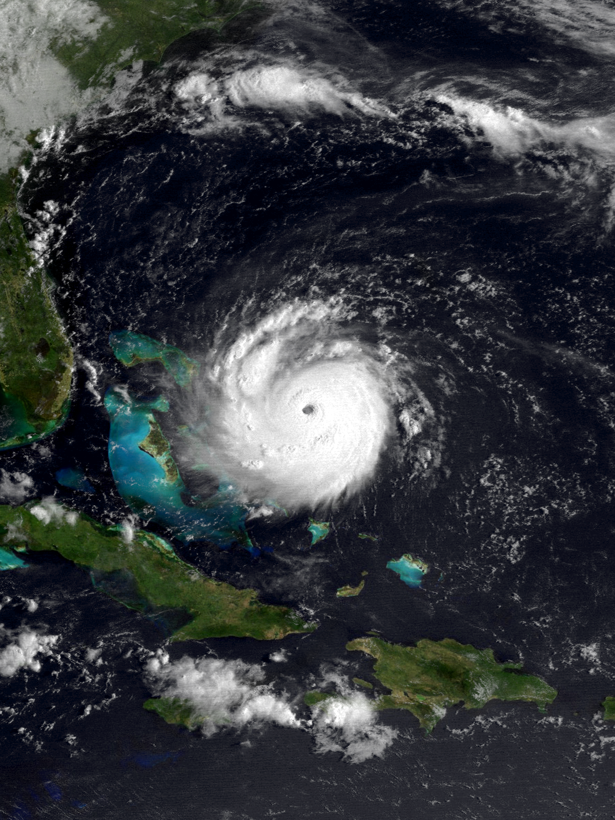 Hurricane Andrew on August 23, 1992